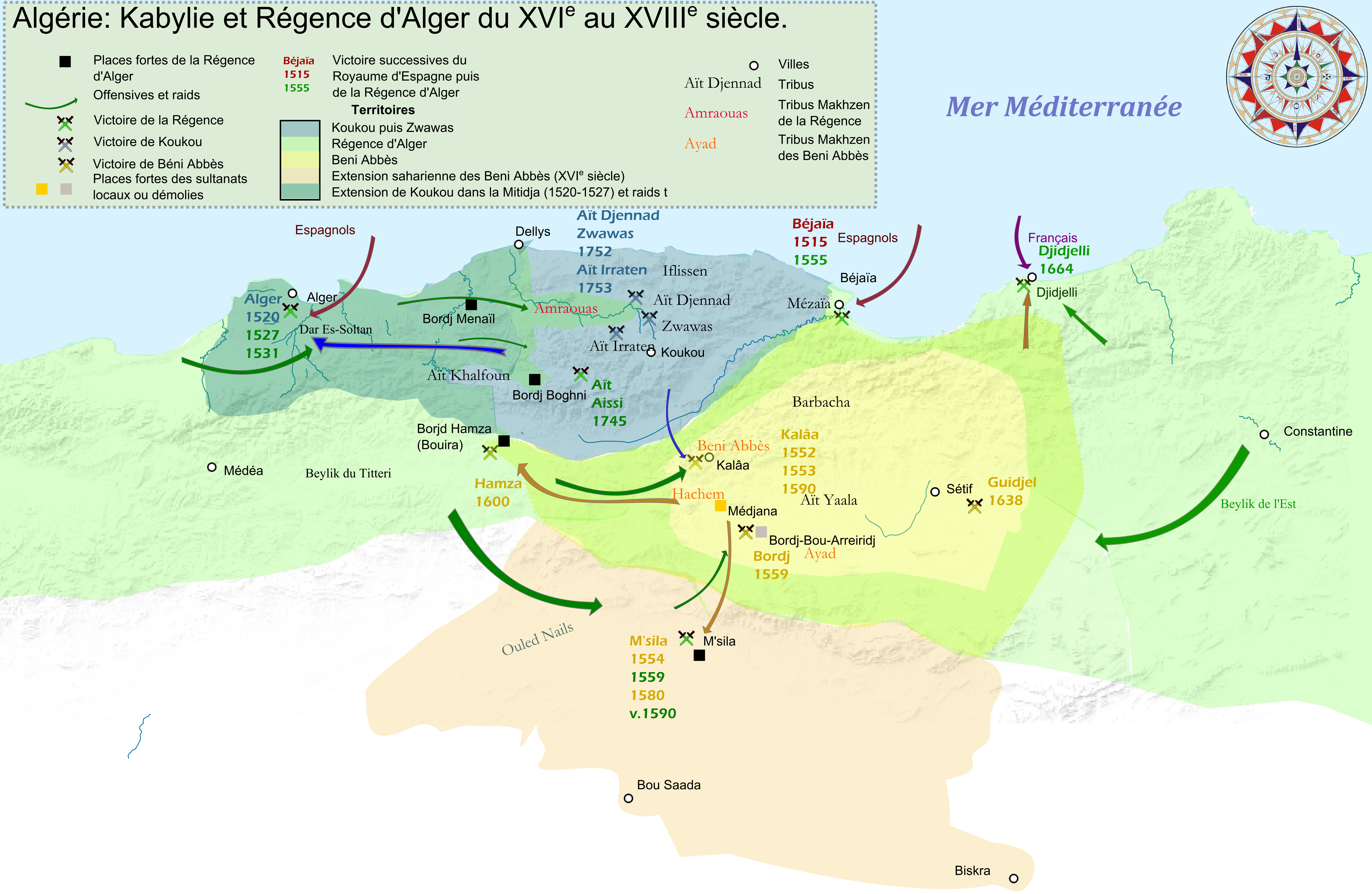 Historic map of Kingdom Beni Abbès and Koukou. Based on : -Euratlas -Louis Rinn ( HISTOIRE DE L’INSURRECTION DE 1871 EN ALGÉRIE) : introduction -Revue africaine, Numéros 97 à 108 (Livre numérique Google)